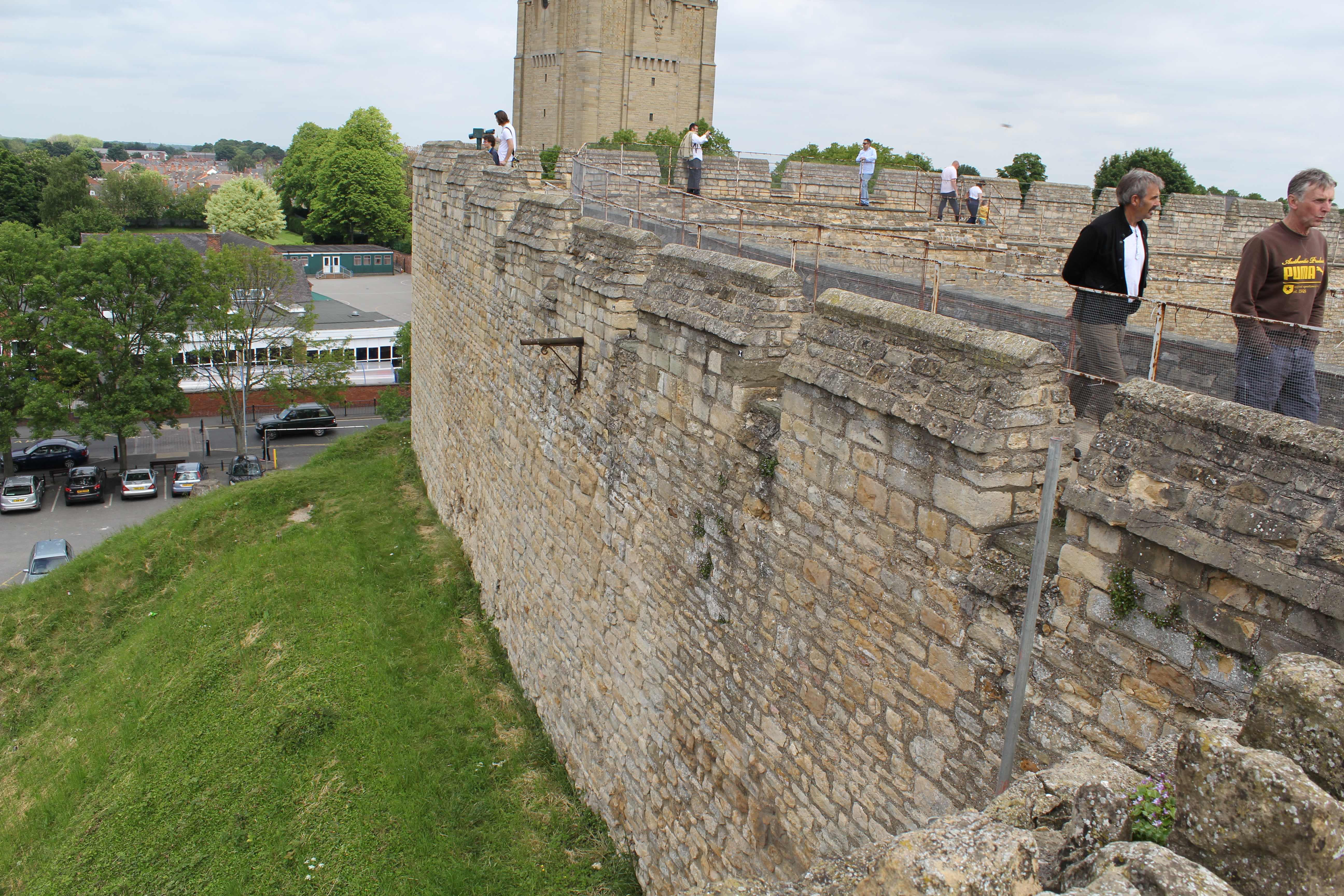 Lincoln Castle's curtain wall, seen from inside the castle's courtyard. The Westgate Water Tower is in the background.